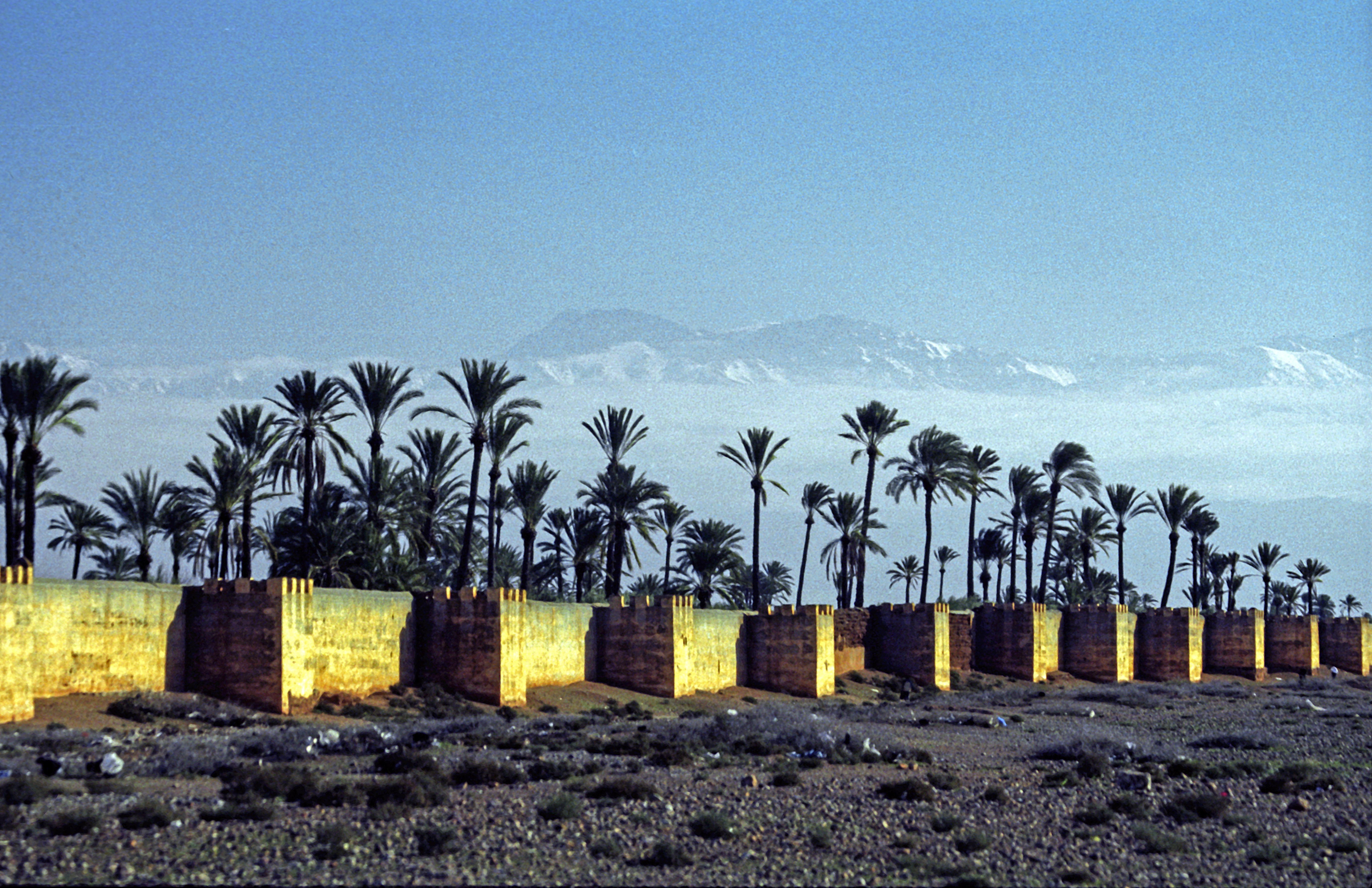 Marrakesh (or Marrakech) defensive wall, Morocco.